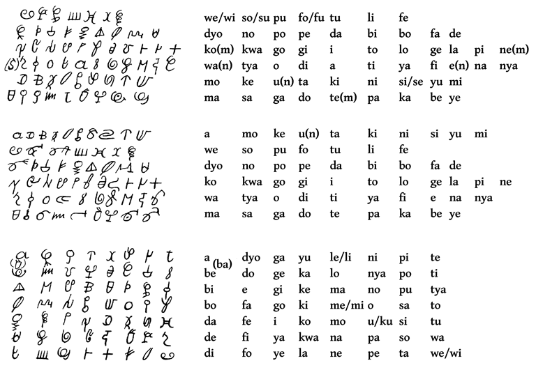 Three variants of the Afaka syllabary as found in the Patili Molosi Buku.